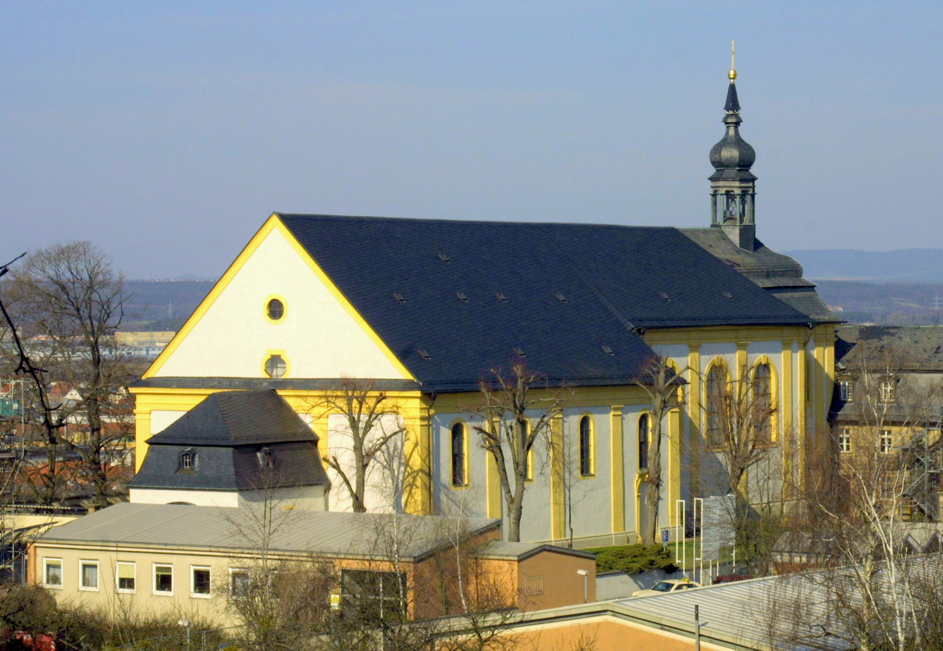 Bamberg, Church of the former St Fides Benedictine provosty from south south-west (Villa Remeis).